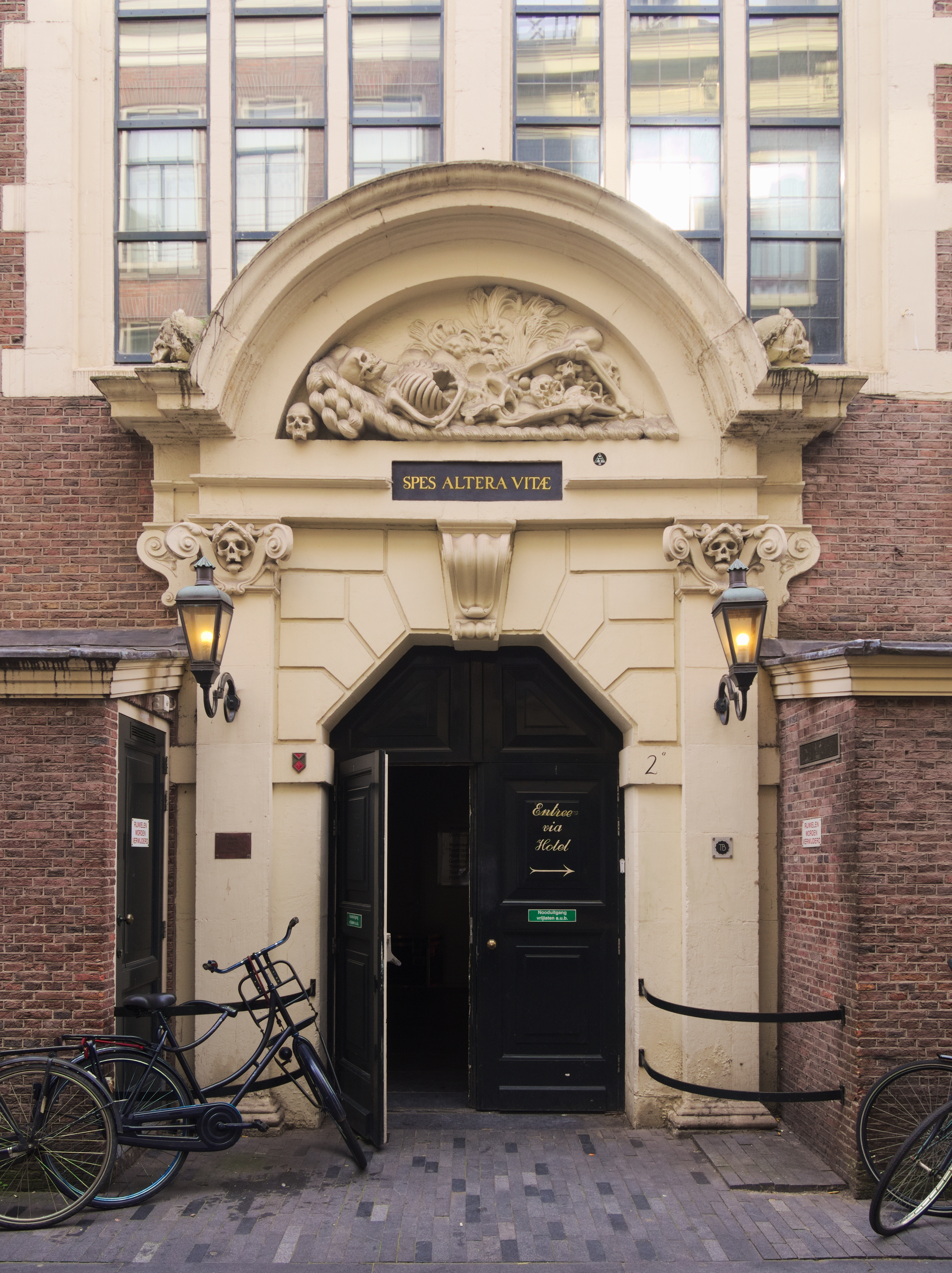 The entrance of Sint Olofskapel, Amsterdam.